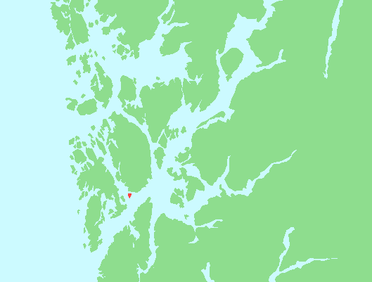 Locator map of Føyno, Hordaland, Norway